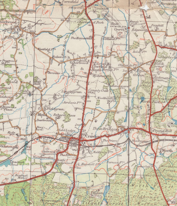 Ordnance Survey Map of Crawley area from 1932 Popular 4th edition series map sheet 125 - Tunbridge Wells